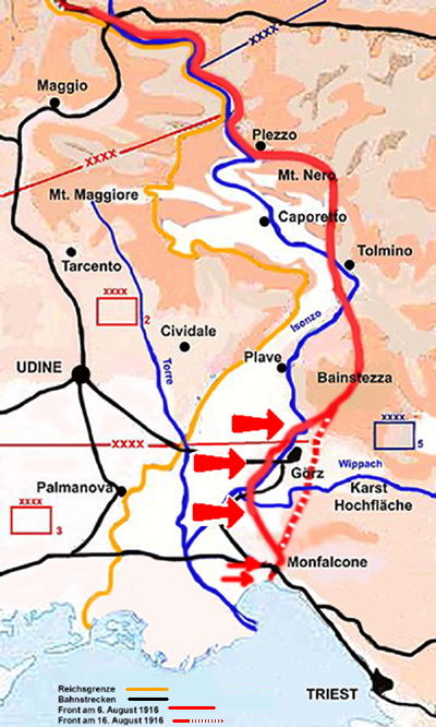 map of the Front at the Isonzo River before and after the 6th Isonzo Battle 1916